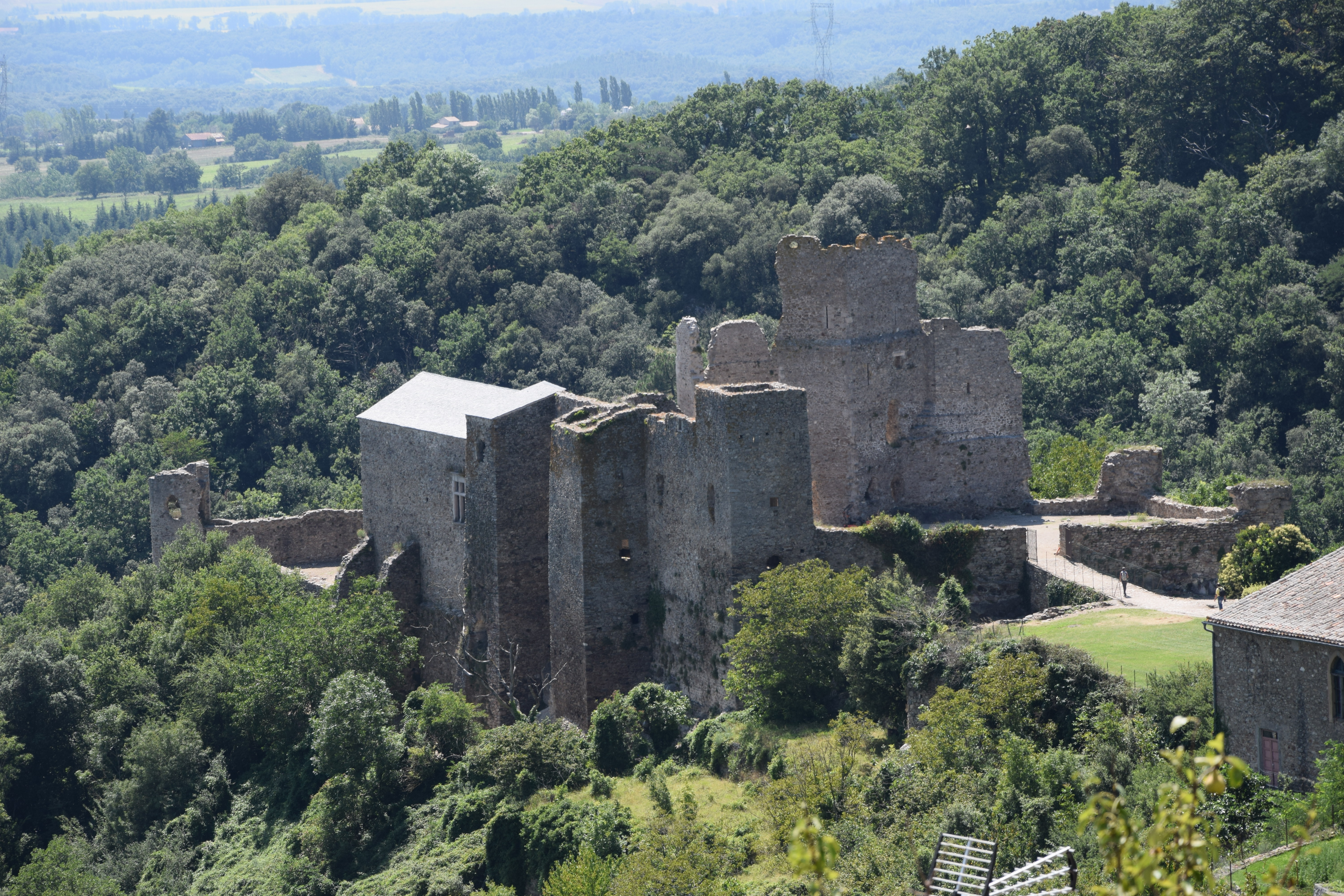 Castle of Saissac